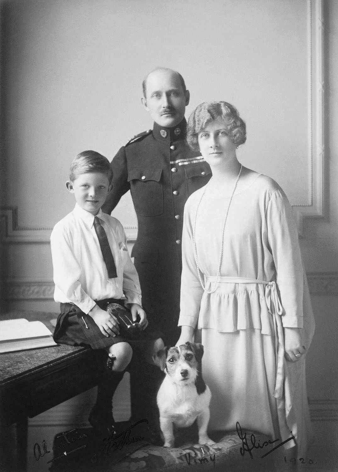 Prince Arthur of Connaught with Princess Alexandra, Prince Alistair of Connaught and dog Vimy